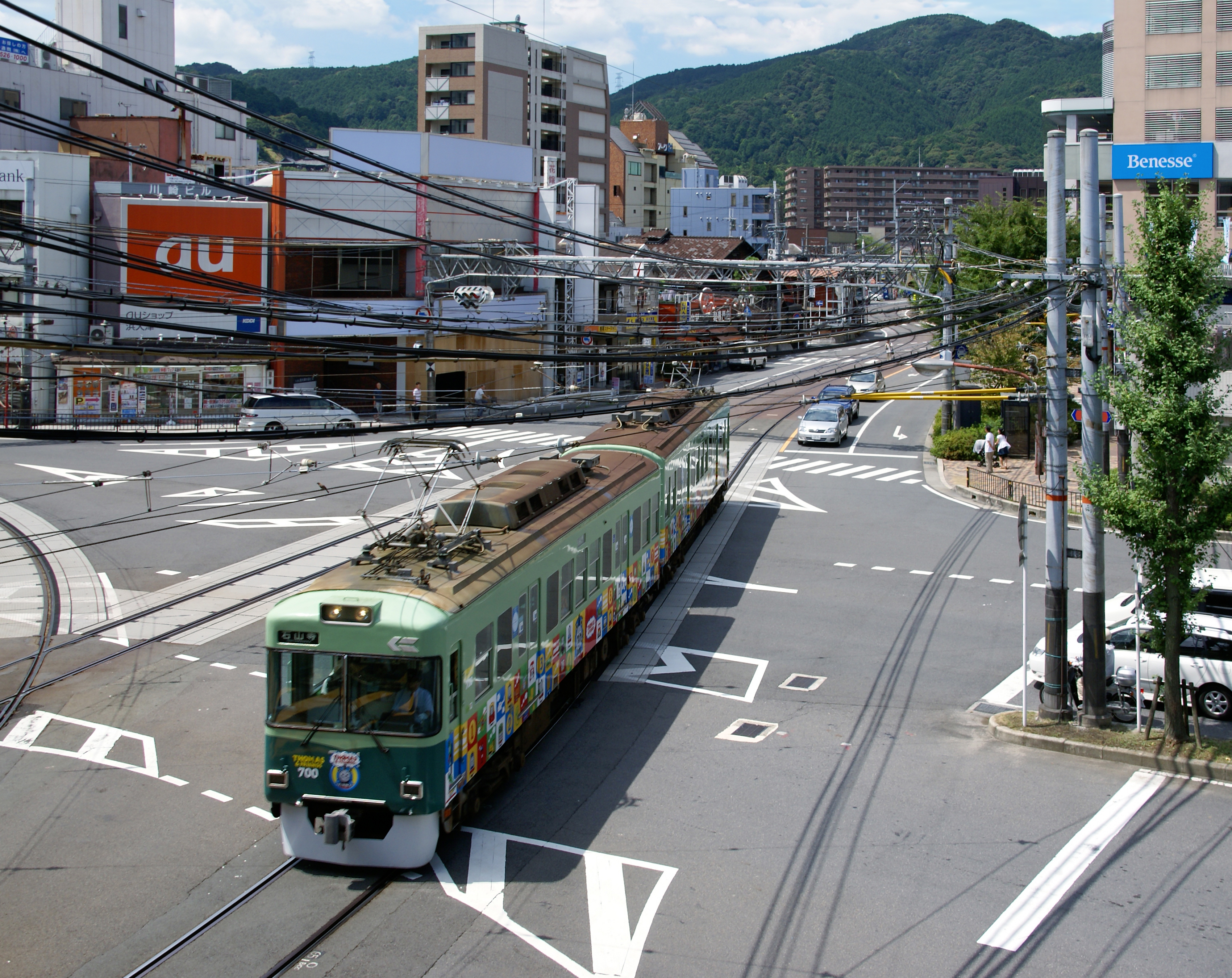 Hamaotsu in Otsu, Shiga prefecture, Japan